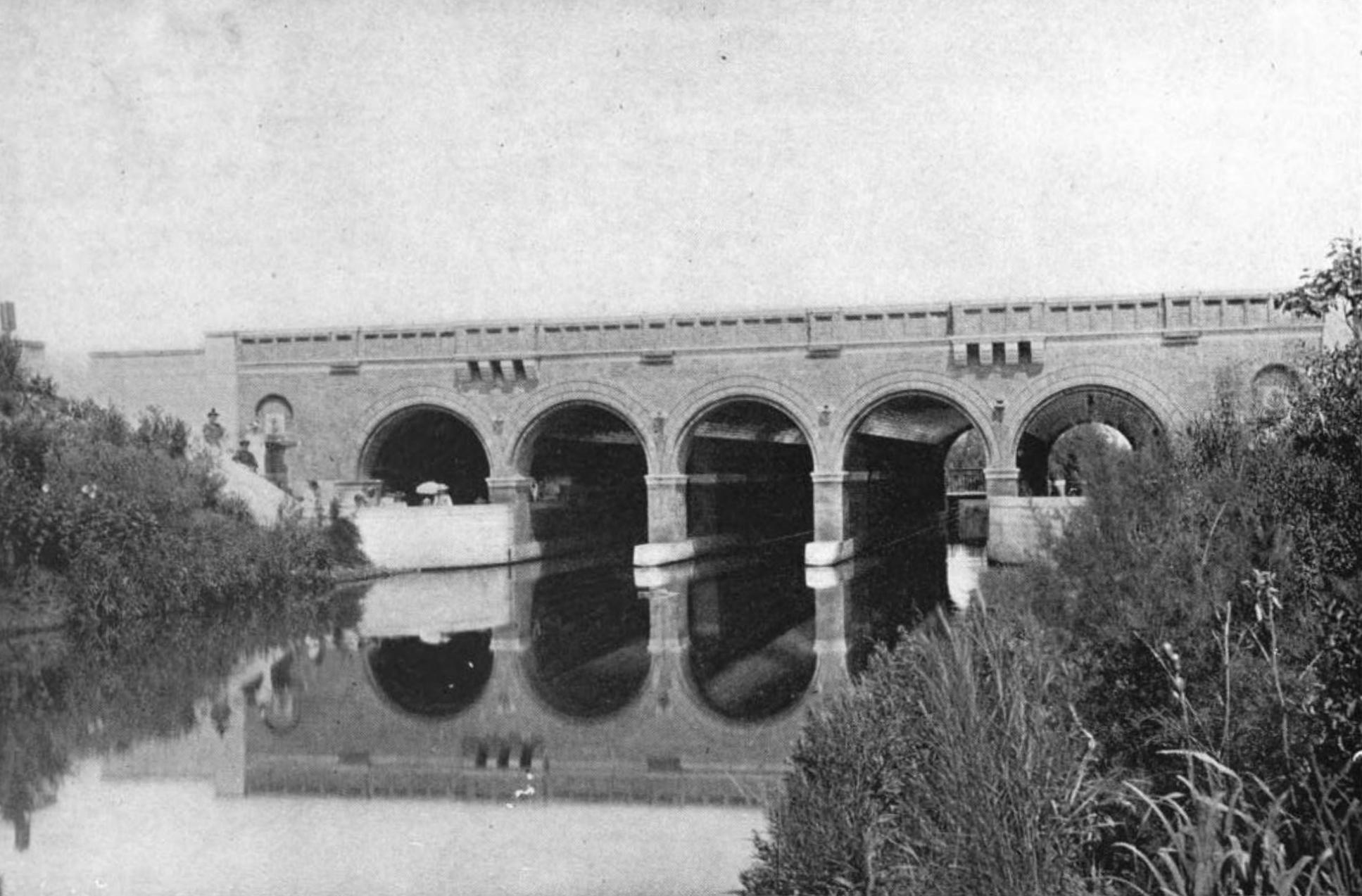 Stony Brook Bridge, Fens, Boston, Mass. Designed by C. Howard Walker. This bridge carried the Fenway over the Stony Brook outflow.